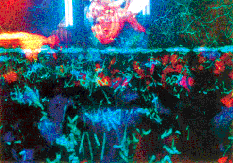 TRANSSERBIA - FluoDeco - Photo TRANSSERBIA - The biggest psychedelic techno/trance festival in Serbia & South East Europe, Serbia, 1998-2000. Organization: TECHNOKRATIA